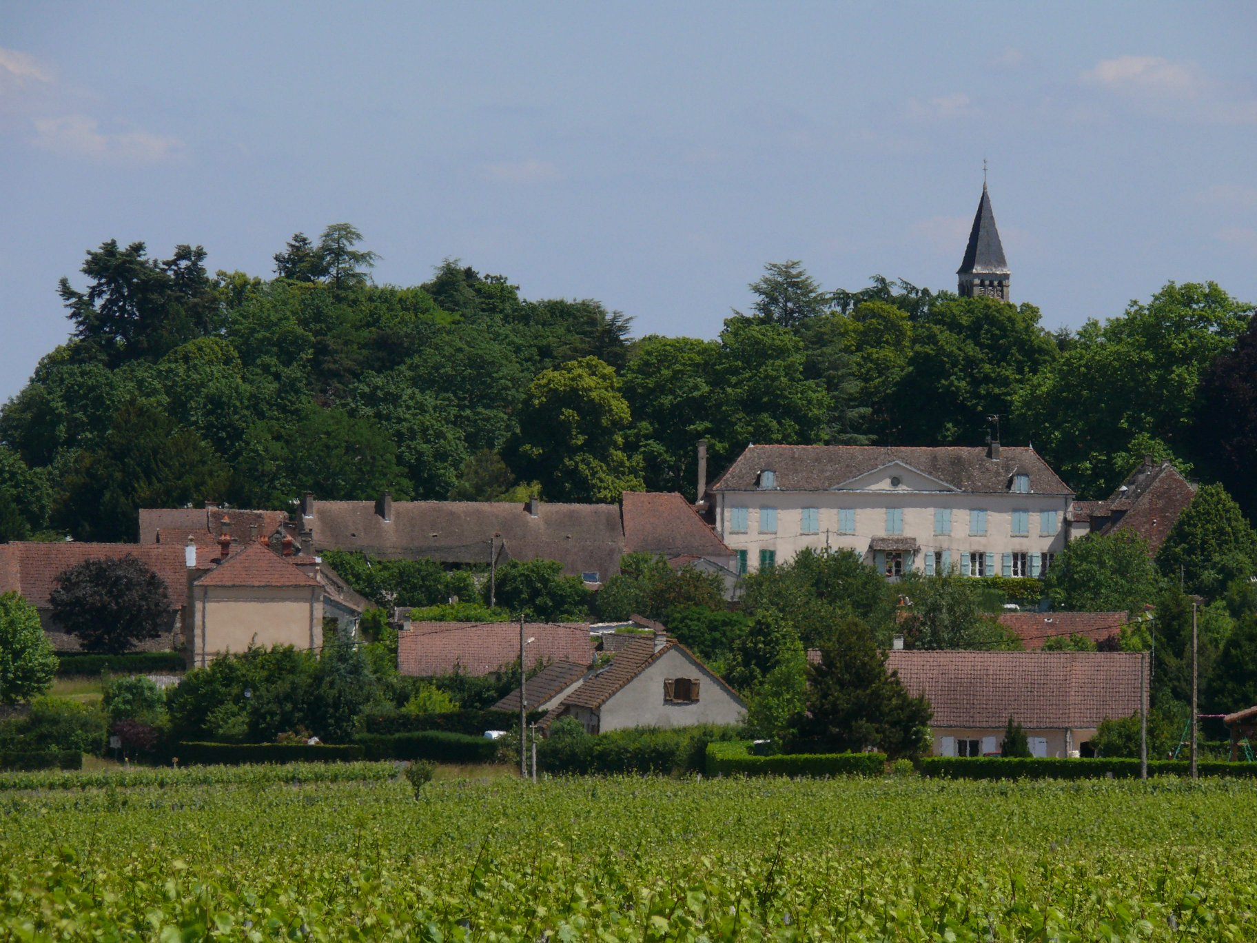 The village of Jully-les-Buxy (Saône-et-Loire, Bourgogne, France).